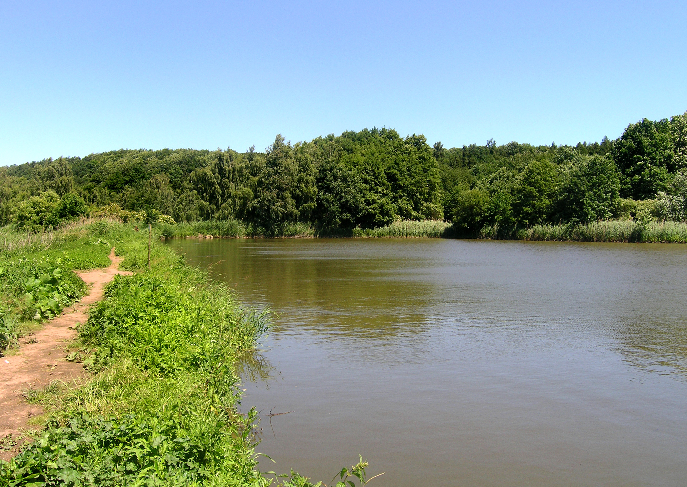 Litožnice natural reserve in Dubeč, Prague